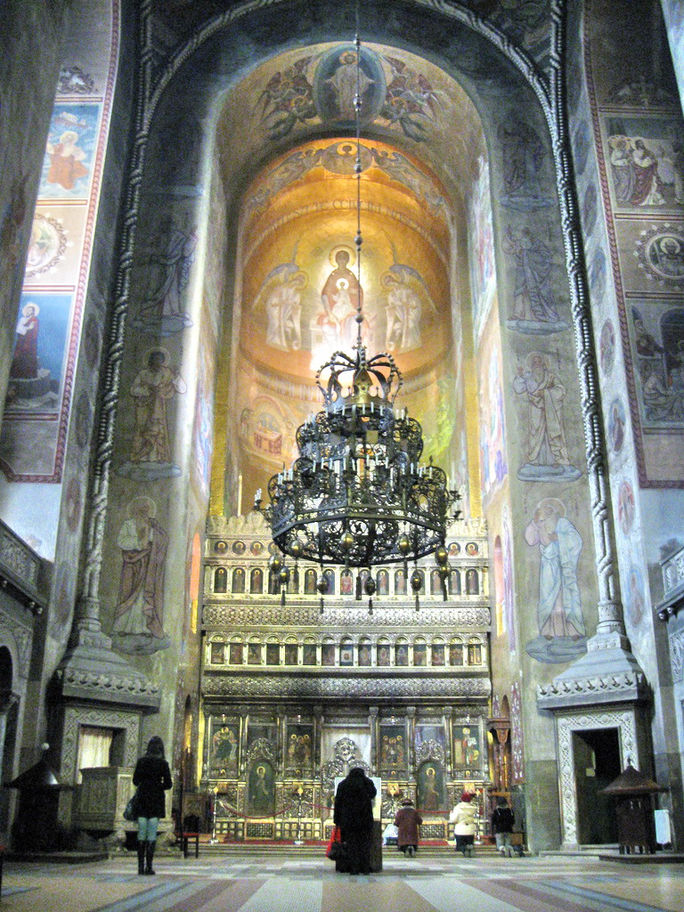 Orthodox cathedral of Cluj-Napoca, Transylvania, Romania, Cluj-Napoca